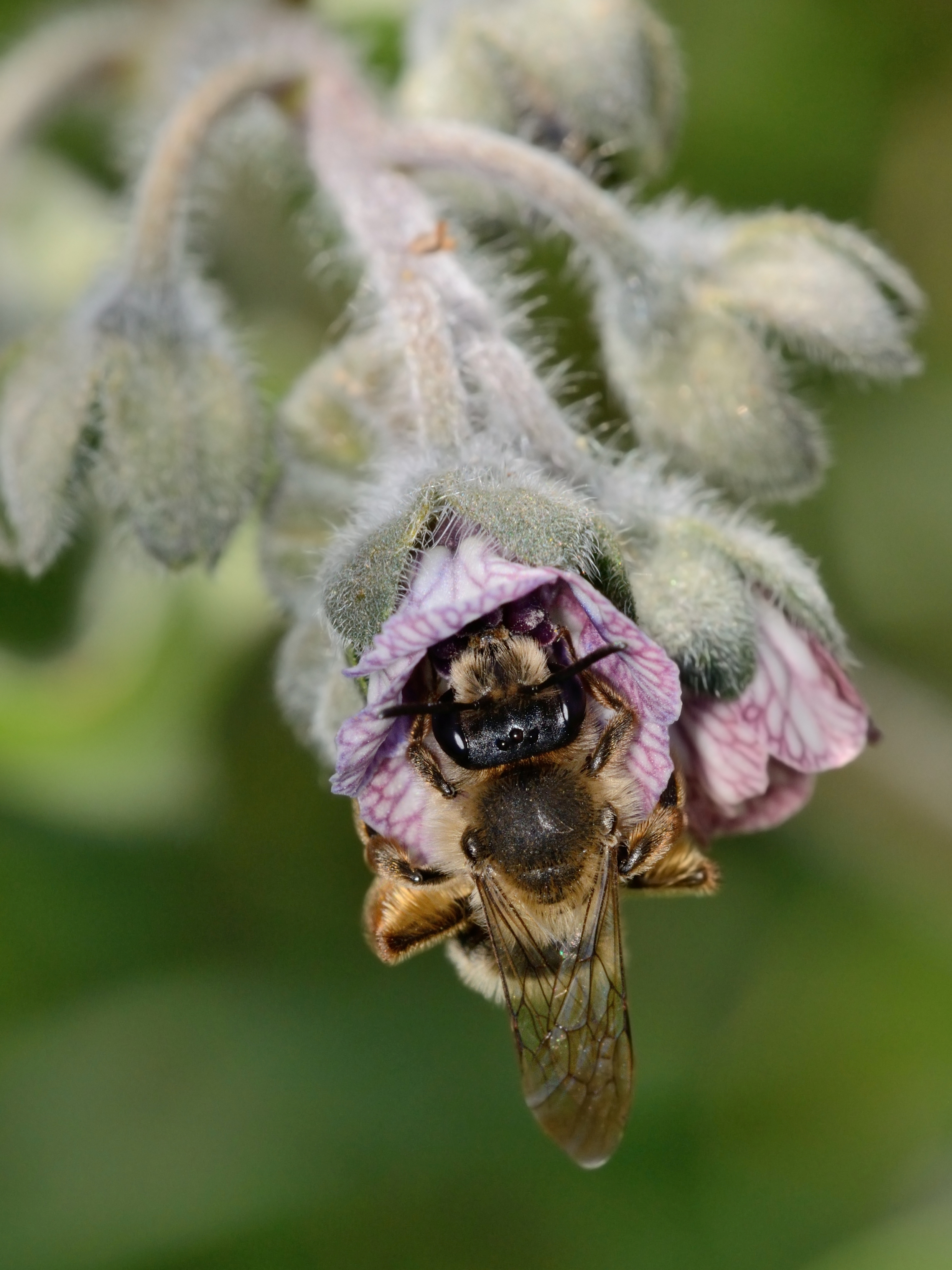 Andrena (Truncandrena) rotundilabris Morawitz, 1877, female foraging on Cynoglossum creticum, Mount Carmel, Israel, March 21, 2014.